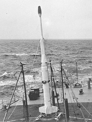 X-17 with nuclear warhead during Operation Argus on board of USS Norton Sound (AVM-1)